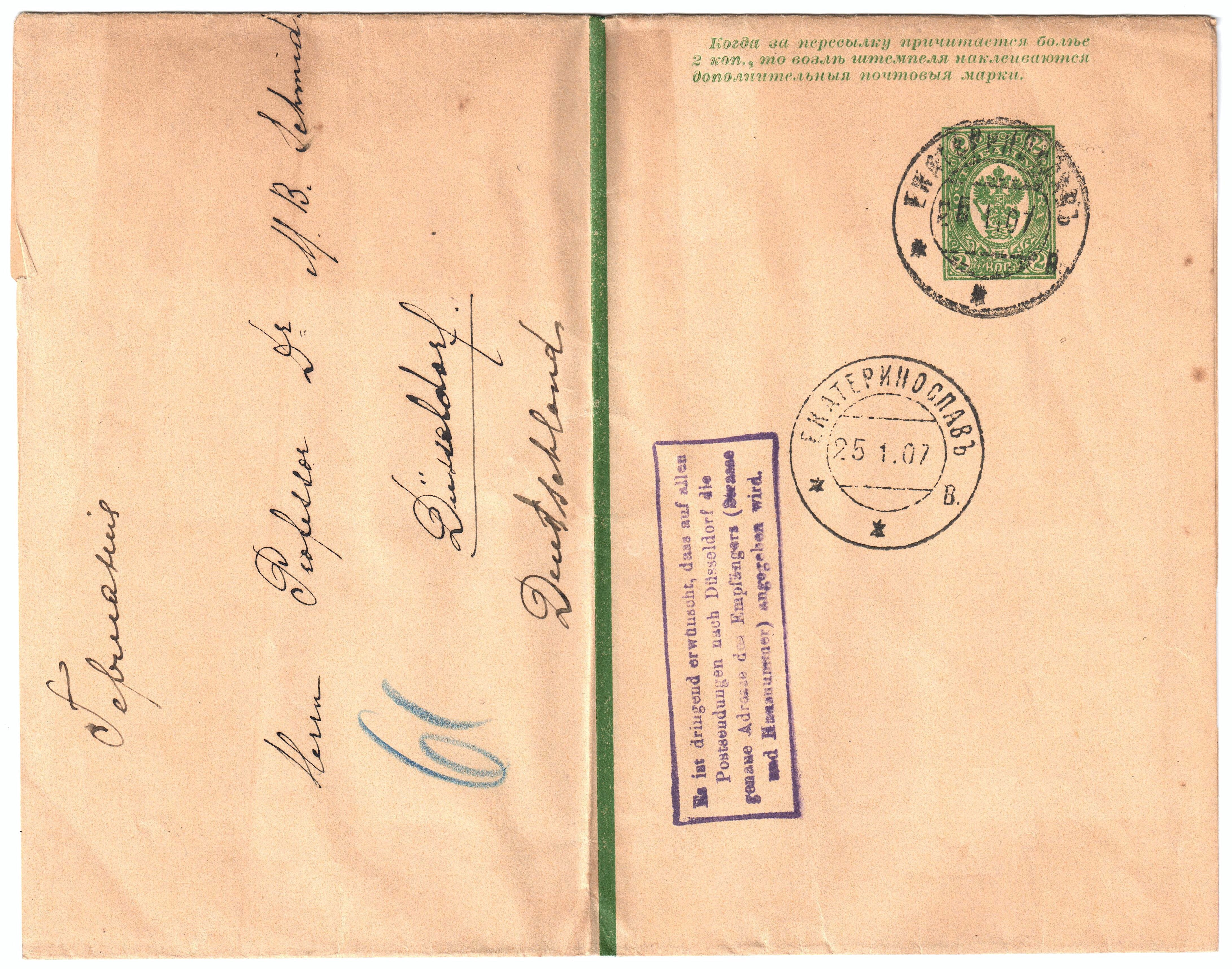 Russia 1907-01-25 2 kopecks wrapper sent from Ekaterinoslav to prof. dr. Schmid in Dusseldorf Germany. Wrapper lacks exact address, so the postal clerk put a (purple boxed) handstamp on it stating all mail must bear the complete address (in German).